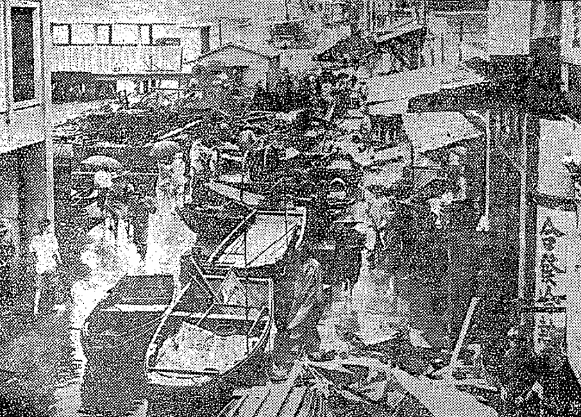 Typhoon Mary in 1960